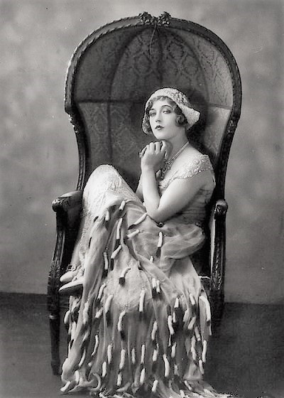 Marion Davies in Beverly of Graustark